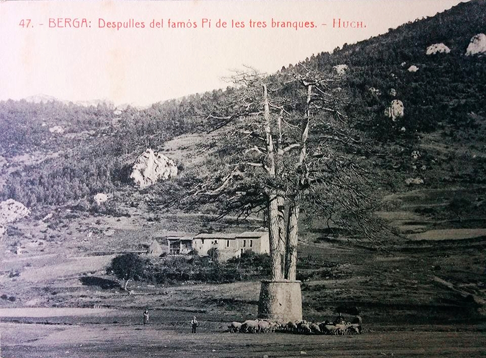 Caption: "Berga: Remains of the famous Pi de les Tres Branques". The photo is clearly older than Pi de les Tres Branques 1915.jpg, since the wall built in 1904 is still intact. That photo has been dated to 1915.